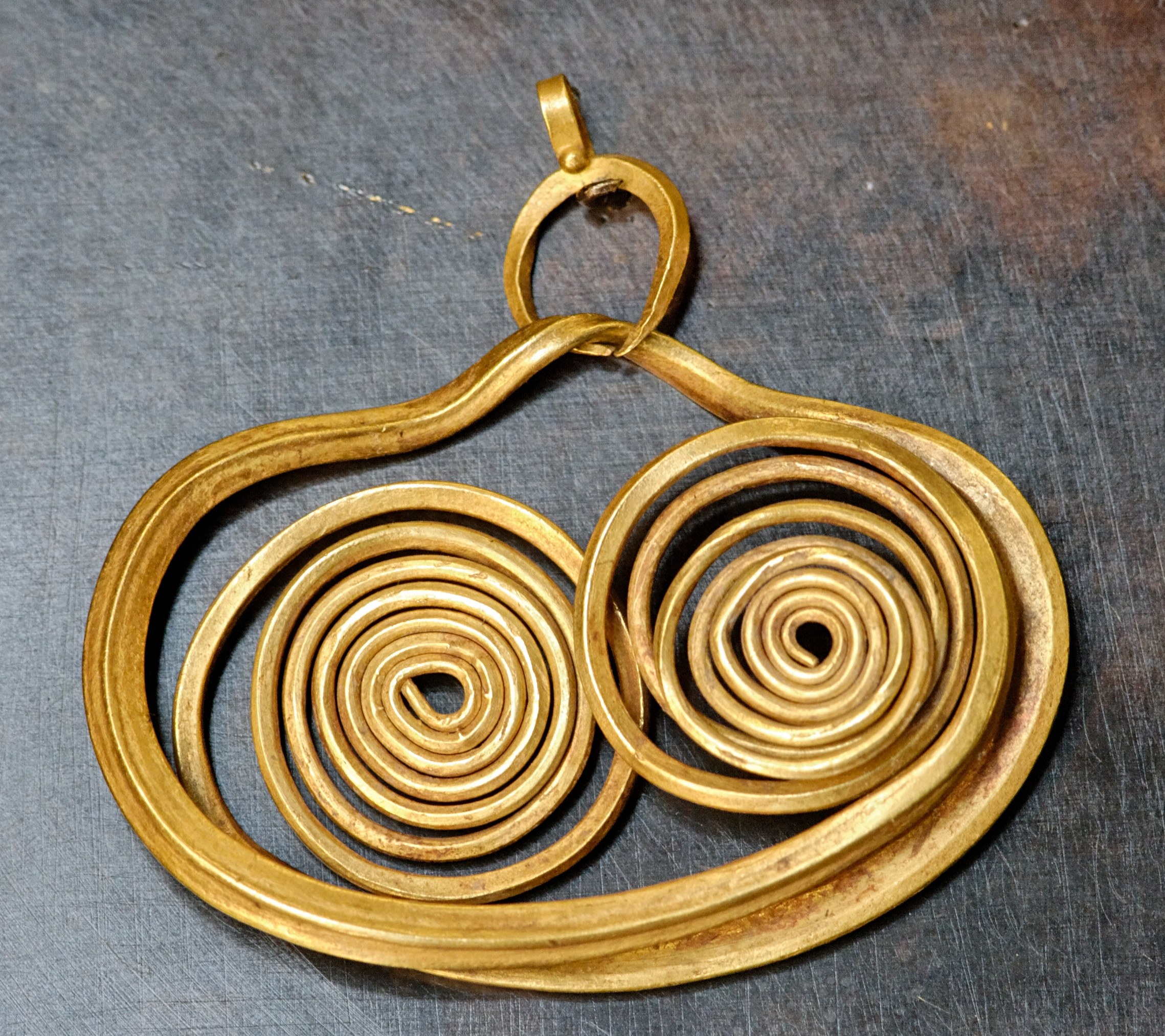 Gold earring from Mycenae, Late Helladic I (16th century BC).